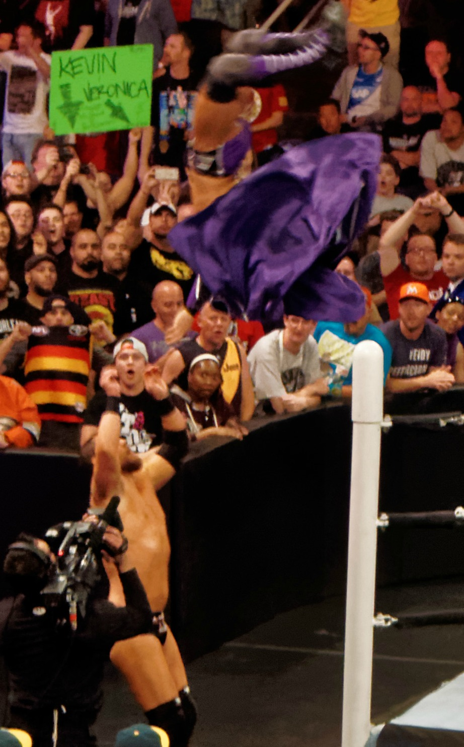 Adrian Neville executing an Springboard Moonsault on Curtis Axel in March 2015.